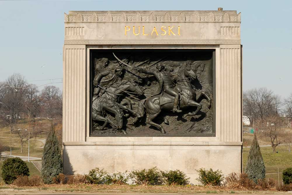 General Casimir Pulaski Monument at Patterson Park in Baltimore, Maryland. Photo by Chuck Szmurlo taken February 11, 2007 with a Nikon D200 and a Nikon 28-70 f2.8 lens Sculptor: Hans Schuler Sr. (1874-1951)